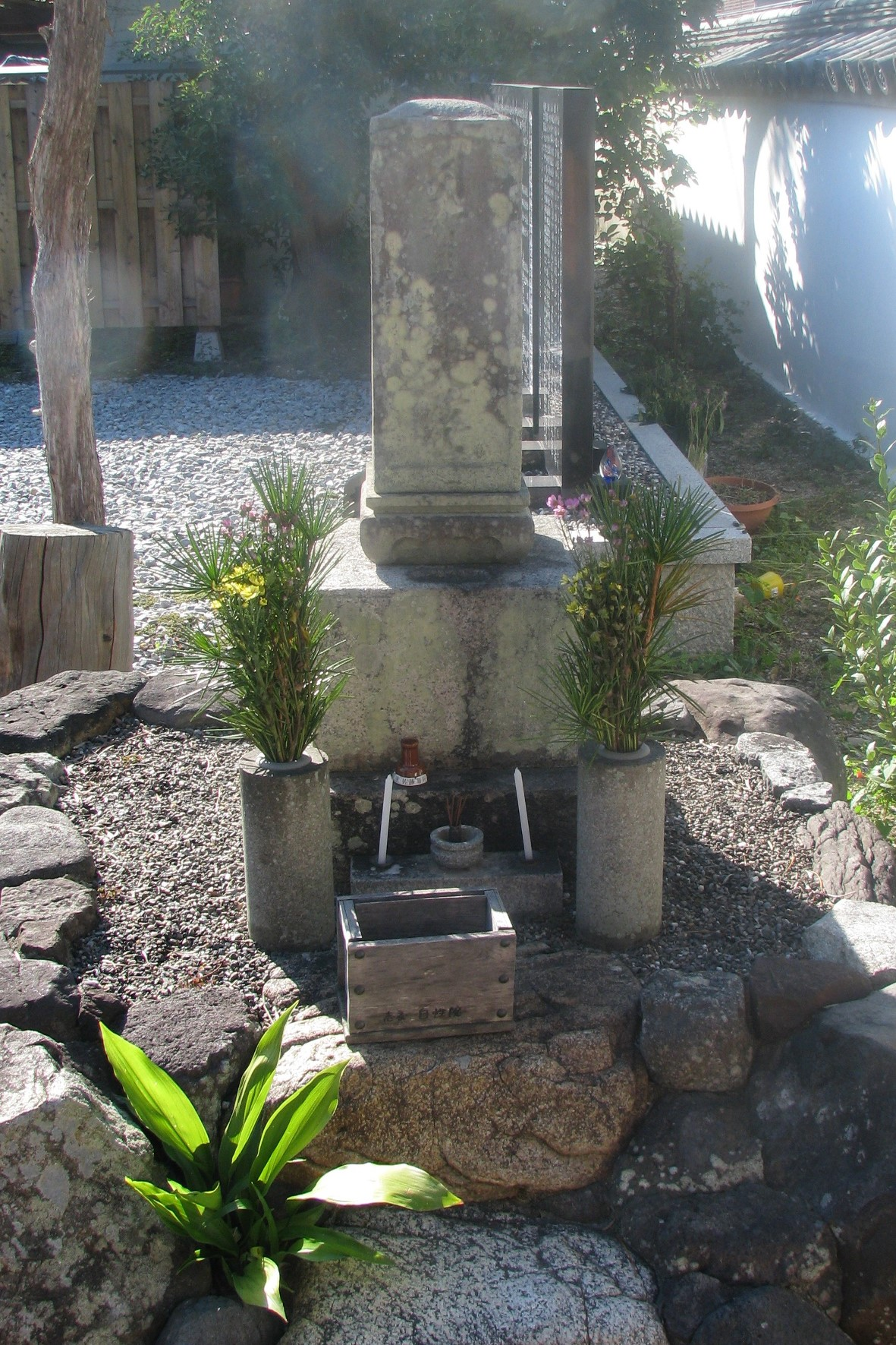 Grave of Hiraga Gennai